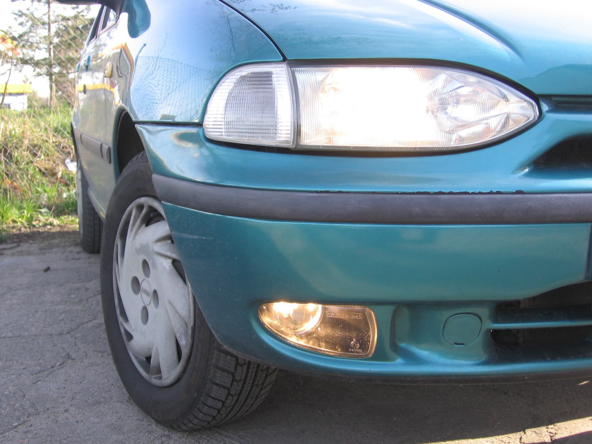 Fiat Siena headlight and fog light (low) turned on